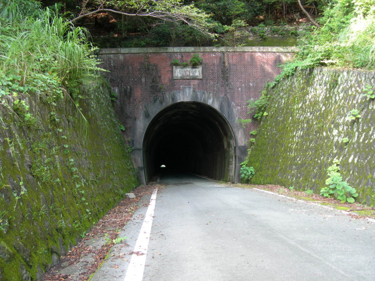 Old-Nomizaka-tunnel at Mie prefectural route No.22, between Watarai and Minami-ise in Japan. It was dug in 1928(Showa3).